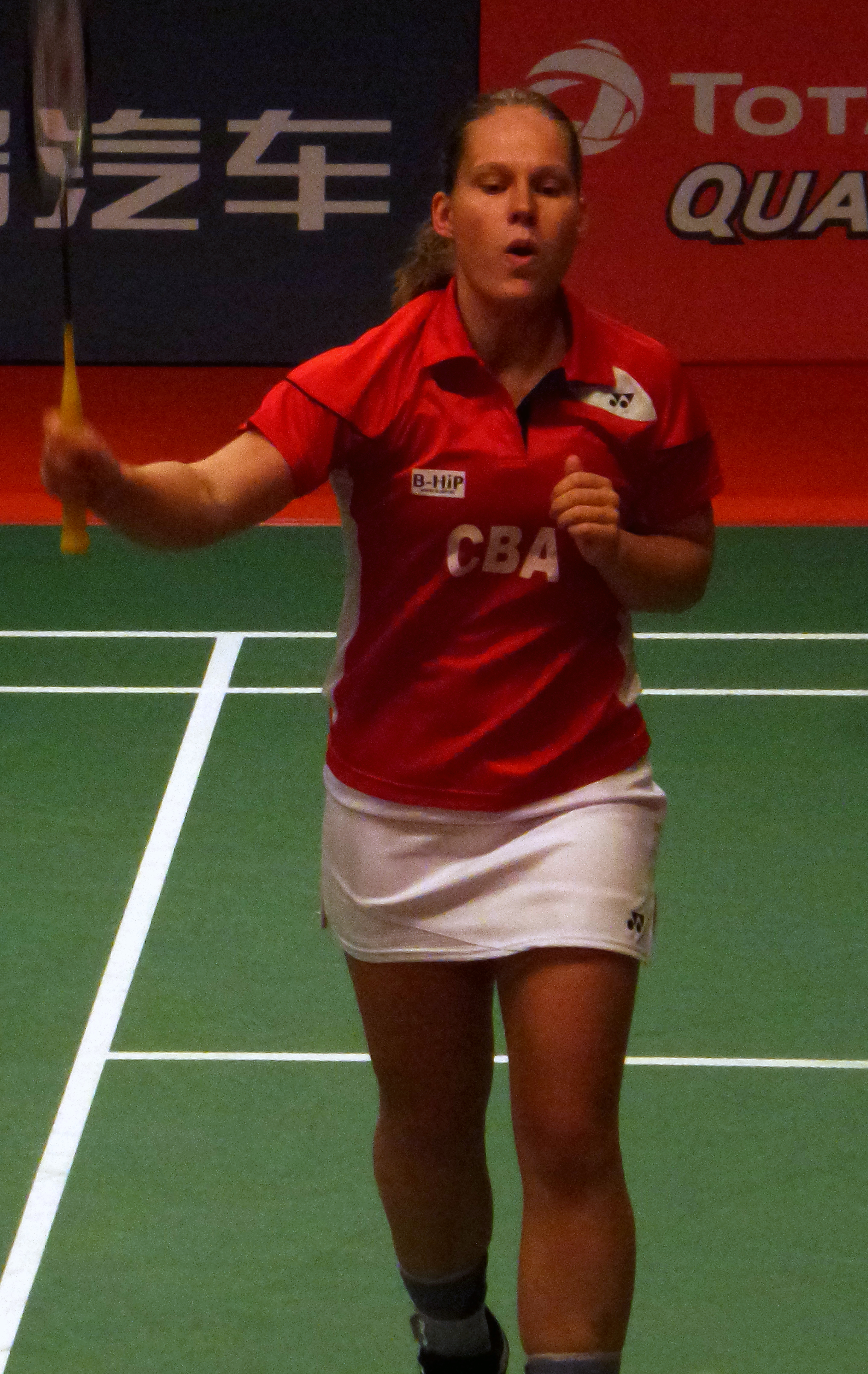 Iris Tabeling in action during the second day of 2015 BWF World Champs 2015